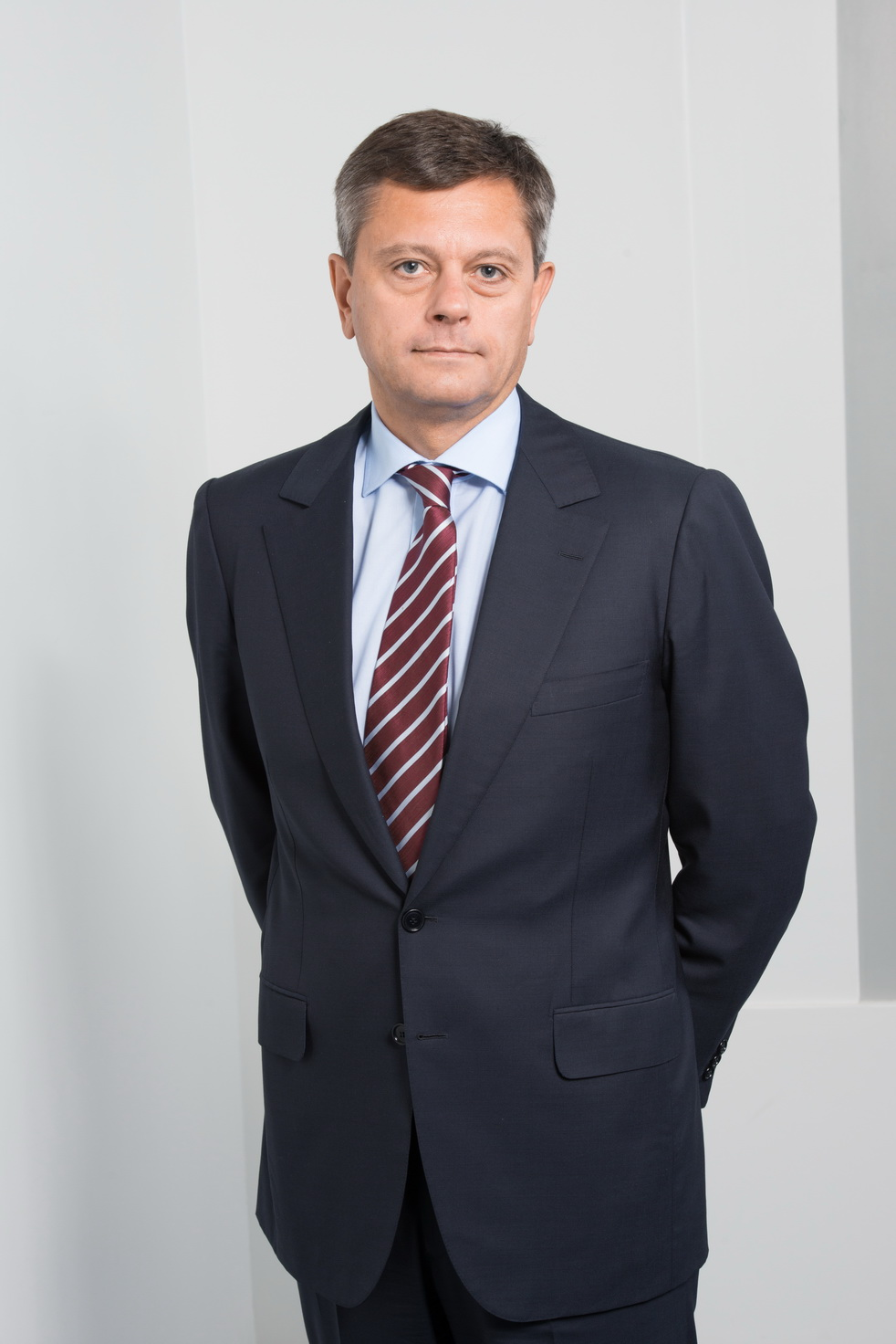 Stanislav Shekshnia